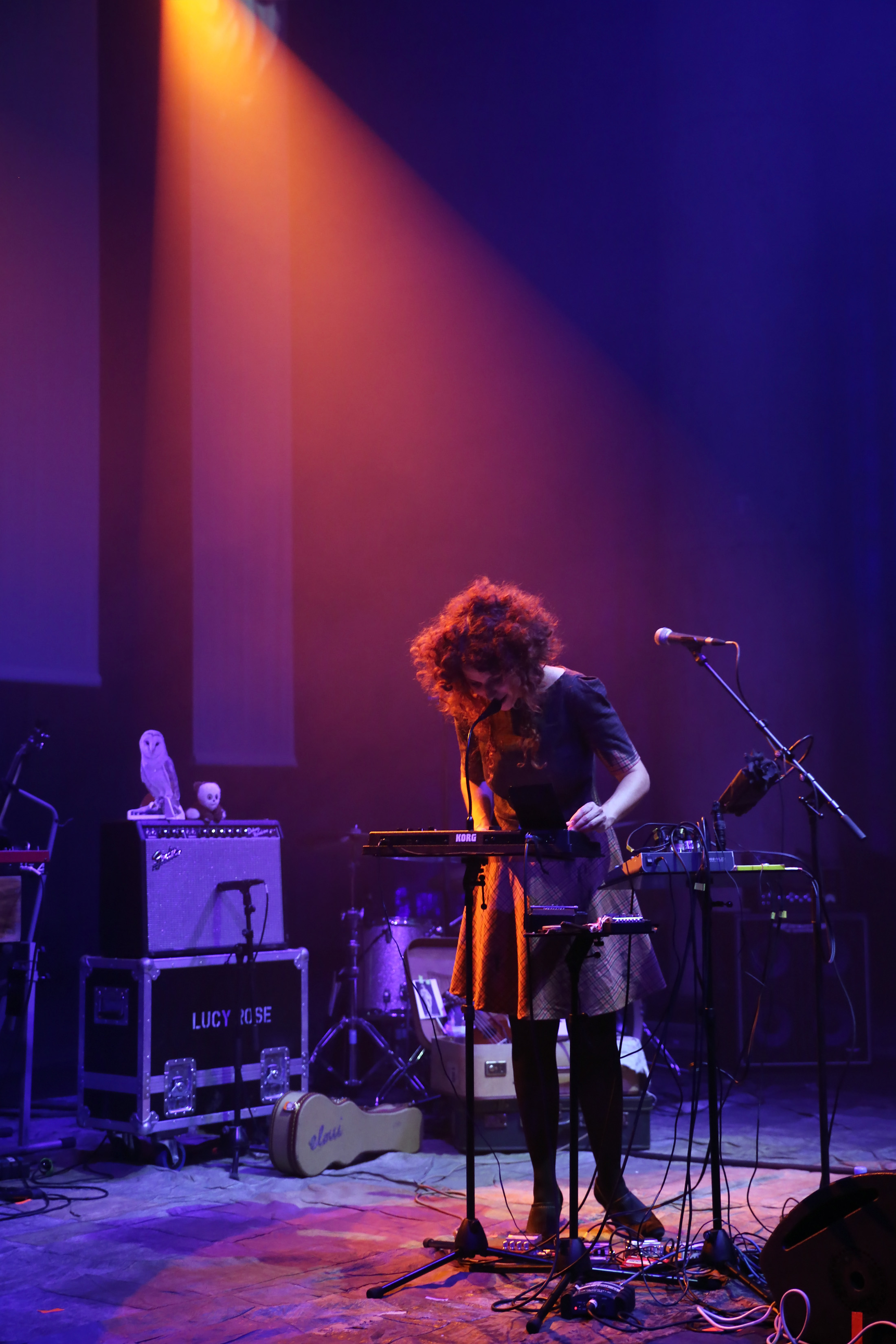 Eloui - concert at Odeon during Waves Vienna Music Festival & Conference 2012 in Vienna, Austria.